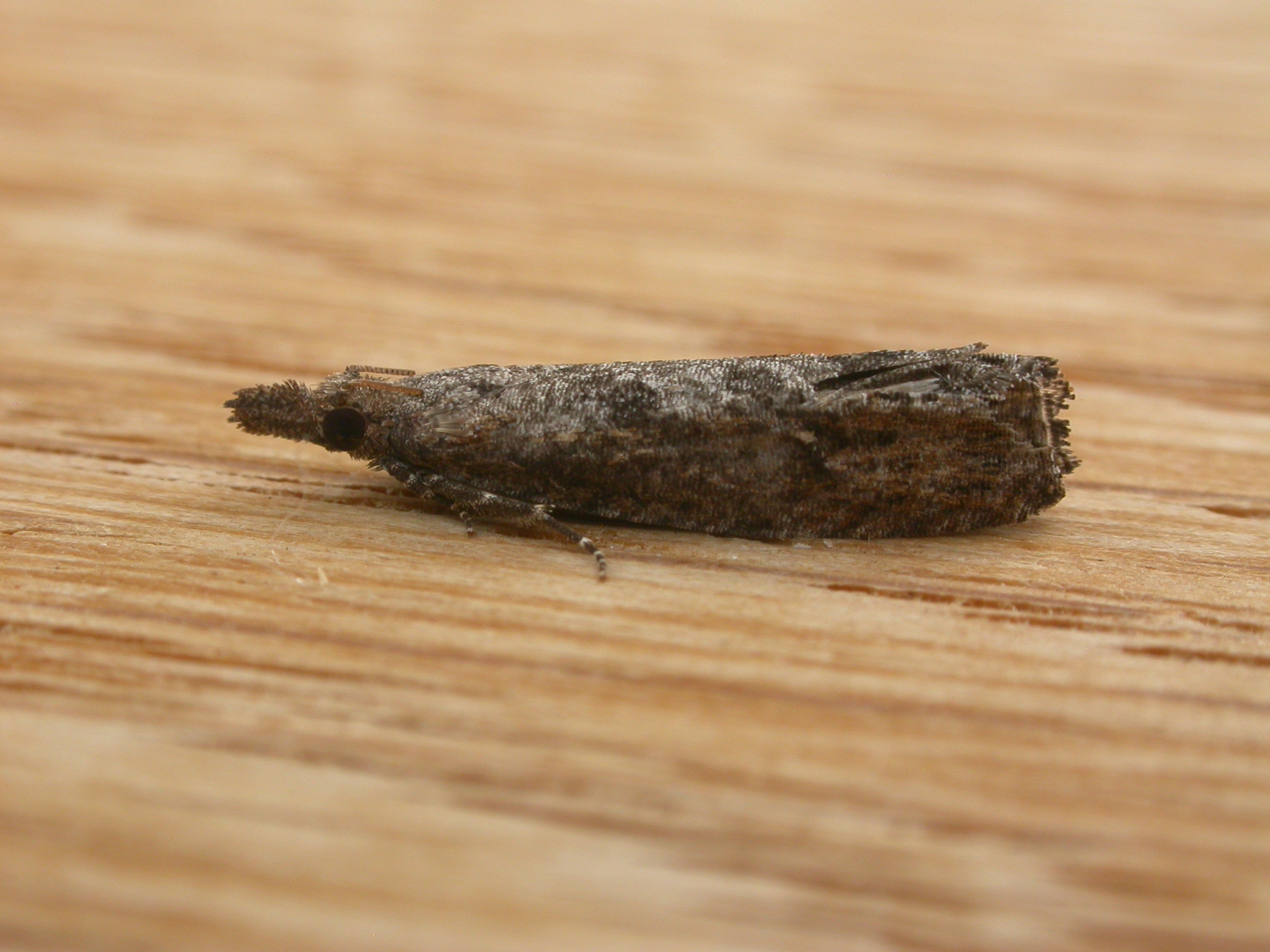 Strepsicrates infensa (Meyrick, 1911), to MV light, Aranda, ACT, 4/5 February 2011